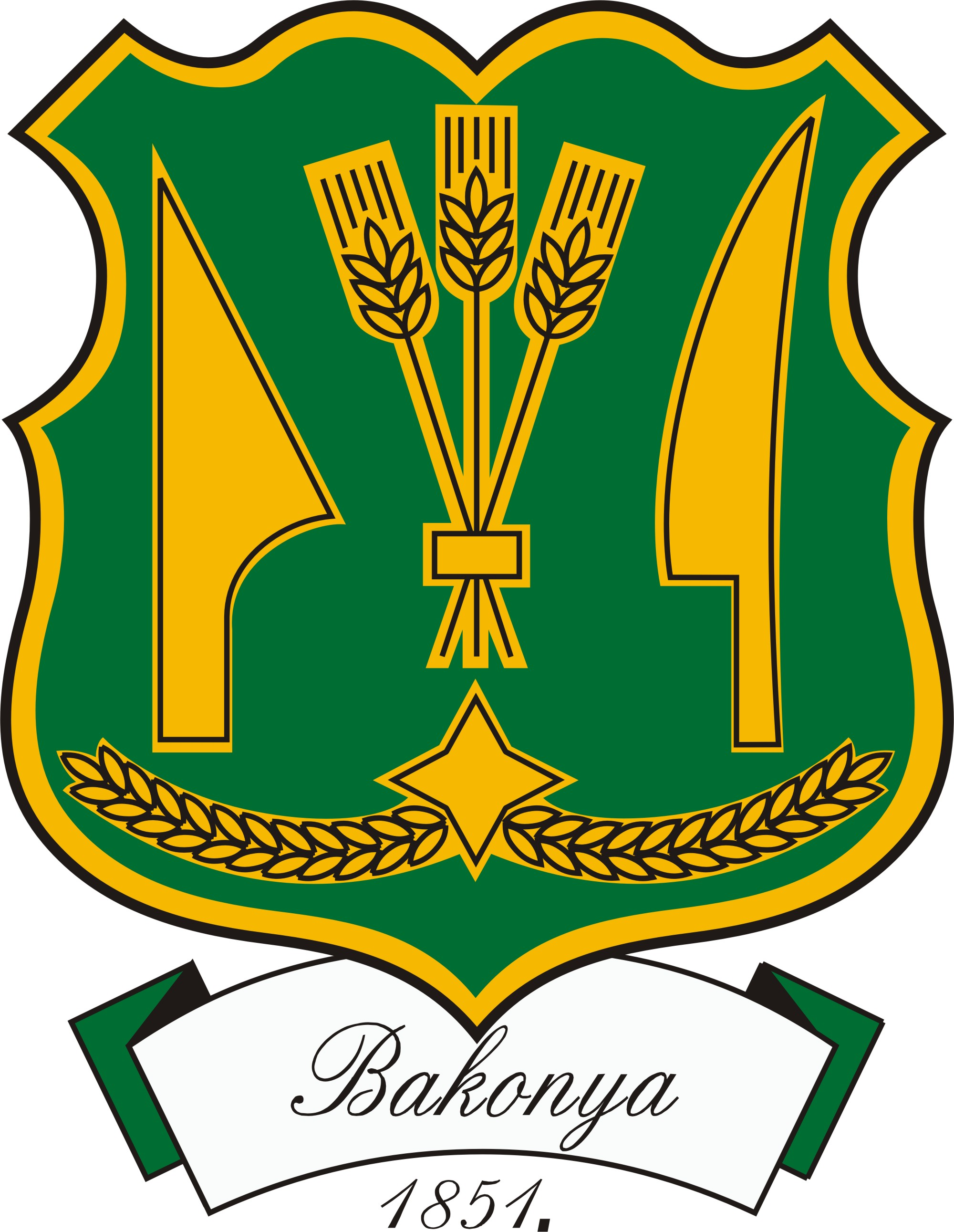 Coat of arms of Bakonya, Hungary